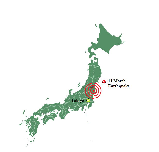 The image was originally taken from the :and was modified by me marking the positions including the earthquake region.